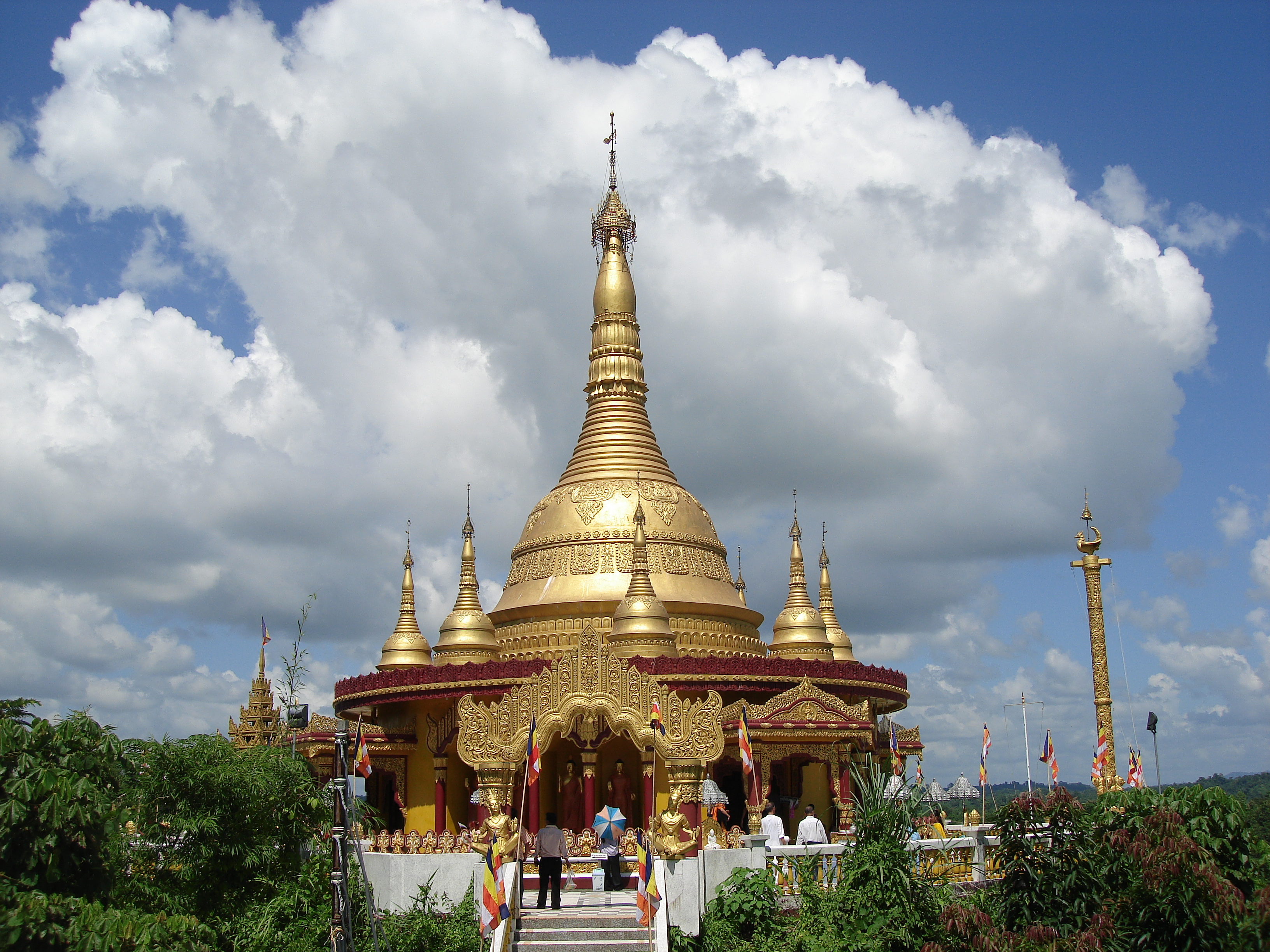 The Buddha Dhatu Zadi (Golden Temple), a temple of Buddha’s relic was founded by most Ven. U Pannya Jota Thera (a former Senior Assistant Judge) at Balaghatat, Pulpara, Bandarban Sadar, Bandarban Hill District, Bangladesh. The Buddha’s Dhatu (relic) was donated by the Sate Sangha Maha Nayaka Committee of Myanmar to most Ven. U Pannya Jota Thera on 1994.